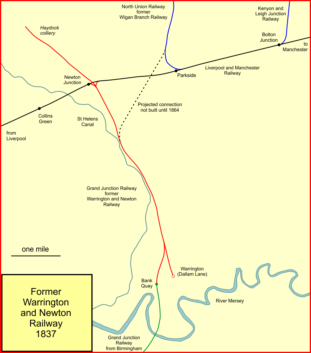 System map of the Warrington and Newton Railway, Lancashire, England, in 1837